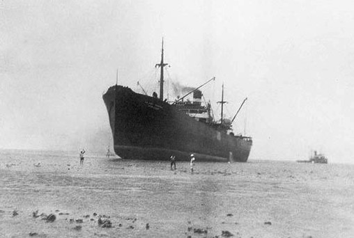 USAT Irvin L. Hunt stranded in the Makassar Strait in 1941. The ship was USS Edenton (ID-3696) in 1918-19.